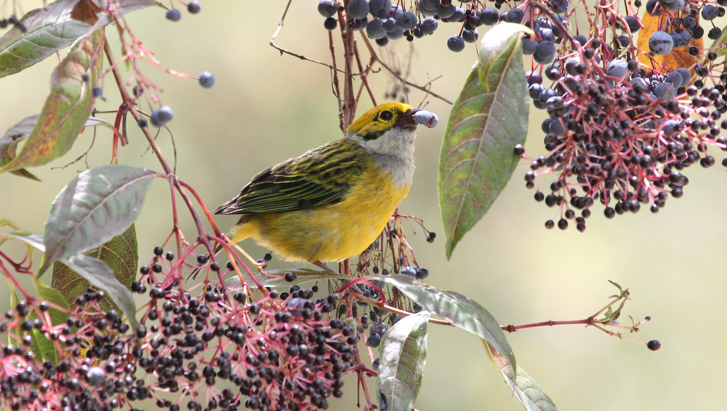 Photographed at Savegre, in Costa Rica.